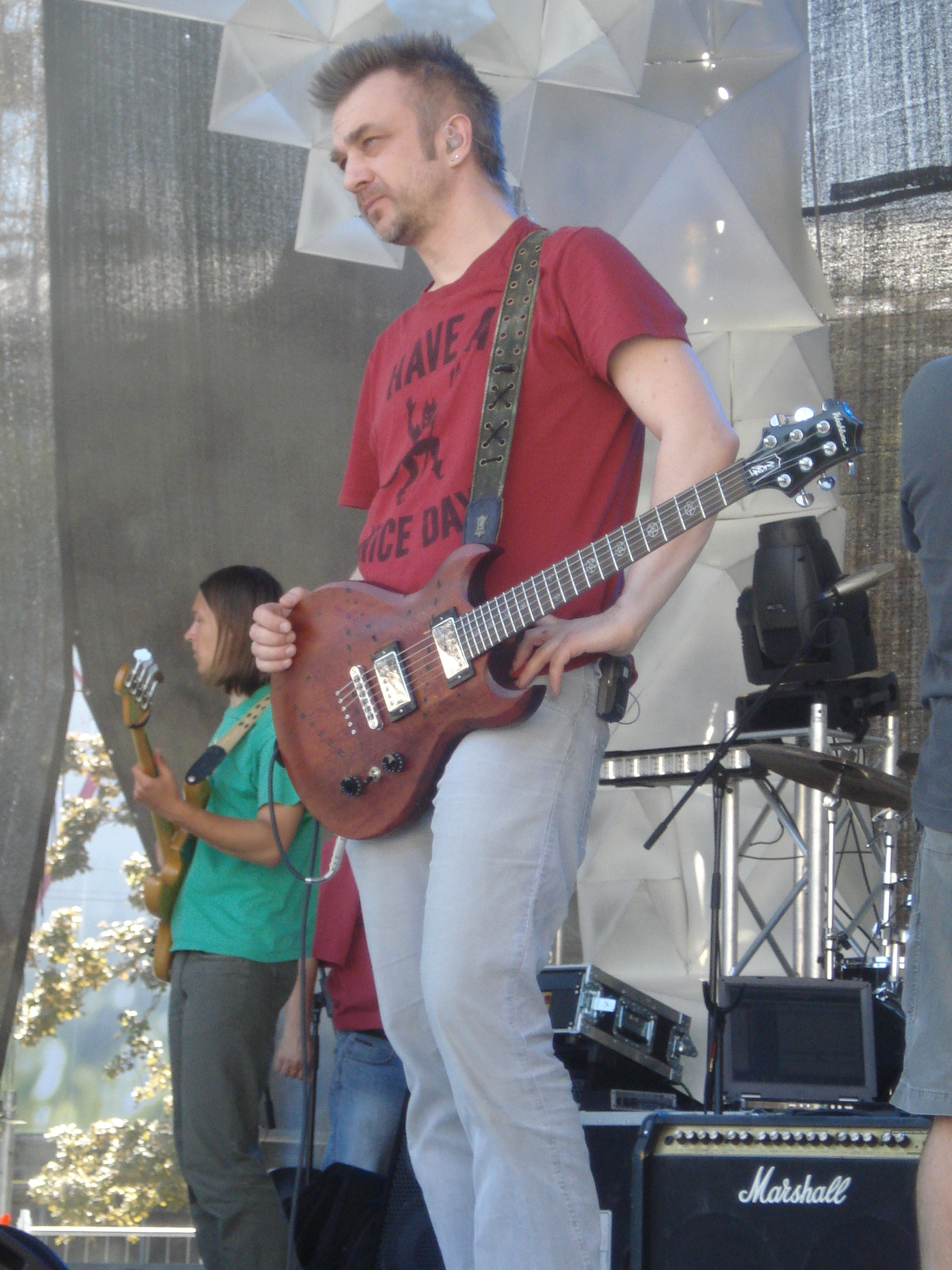 Andrius Mamontovas. Repetion before show at the Cathedral Square 2008 06 06